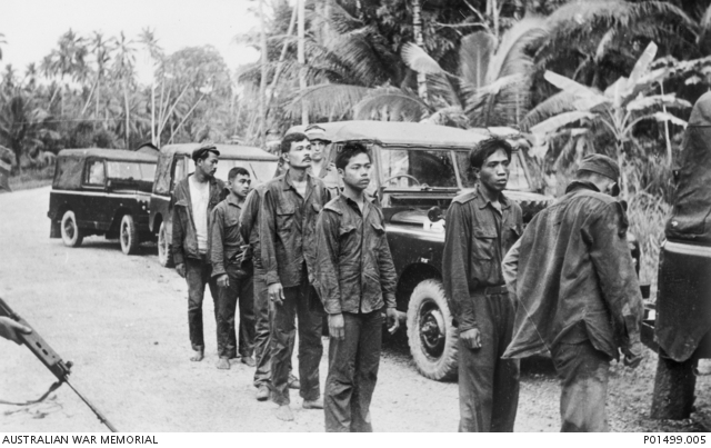 CAPTURED INDONESIAN INFILTRATORS WAIT IN LINE TO BOARD TRANSPORT, NEAR THE SUNGEI (RIVER) KESANG, SOUTH OF TERENDAK, UNDER THE GUARD OF SOLDIERS FROM 'D' COMPANY, 3RD BATTALION, THE ROYAL AUSTRALIAN REGIMENT (3RAR).(DONOR N. BROWN)